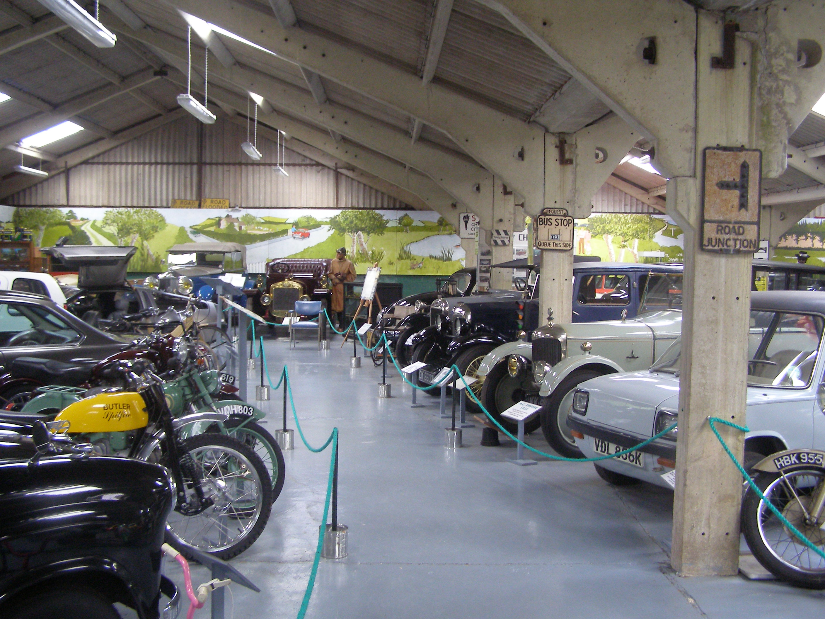 Bentley Wildfowl and Motor Museum, Halland, East Sussex, England